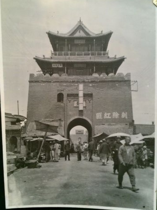 Wenchangge Pavillion, Shuoxian County